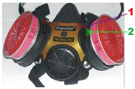 New development of the institute: filters with sensors, which are placed in the sorbent at different depths